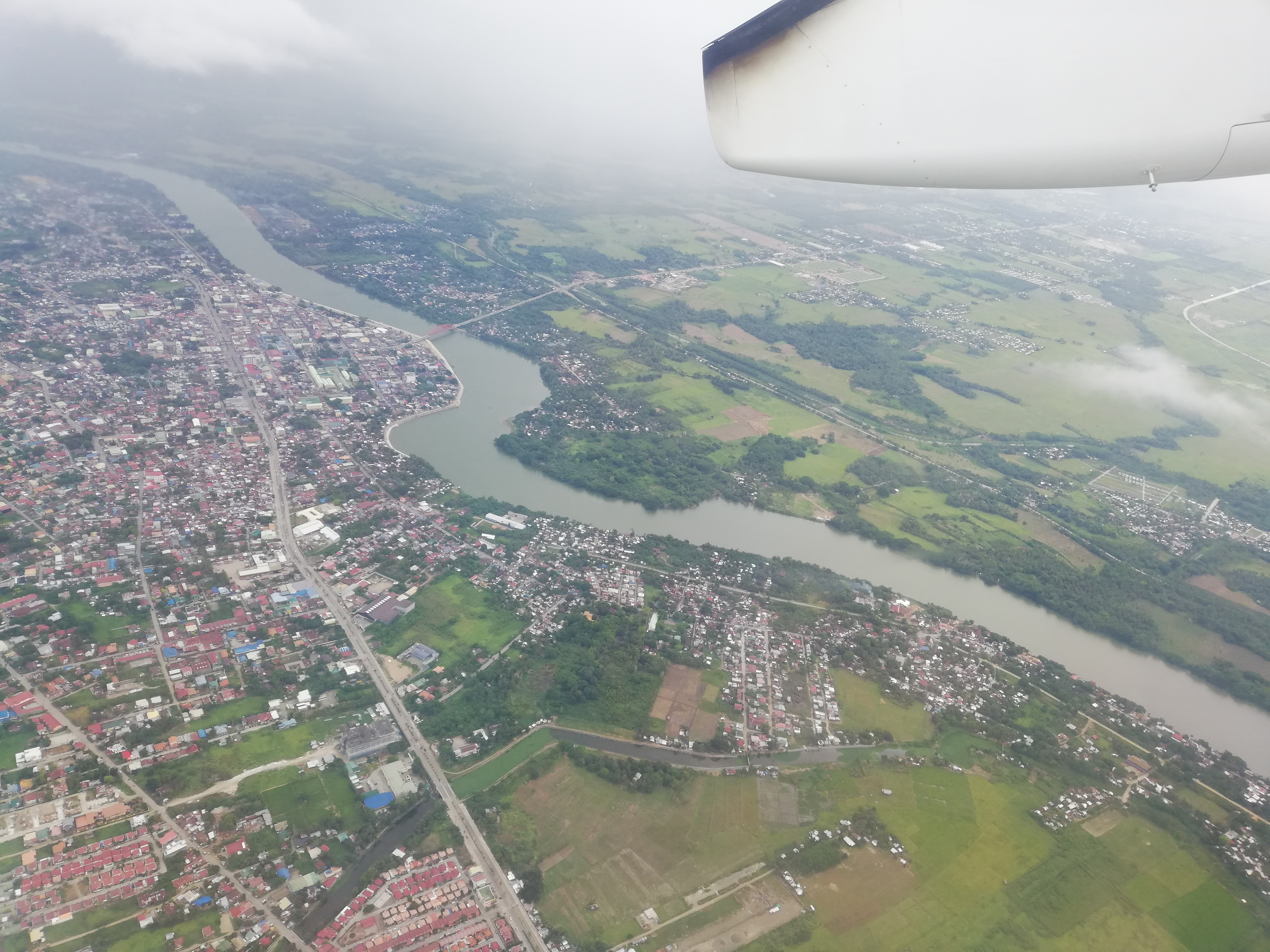 Aerial view of Butuan city with Agusan river